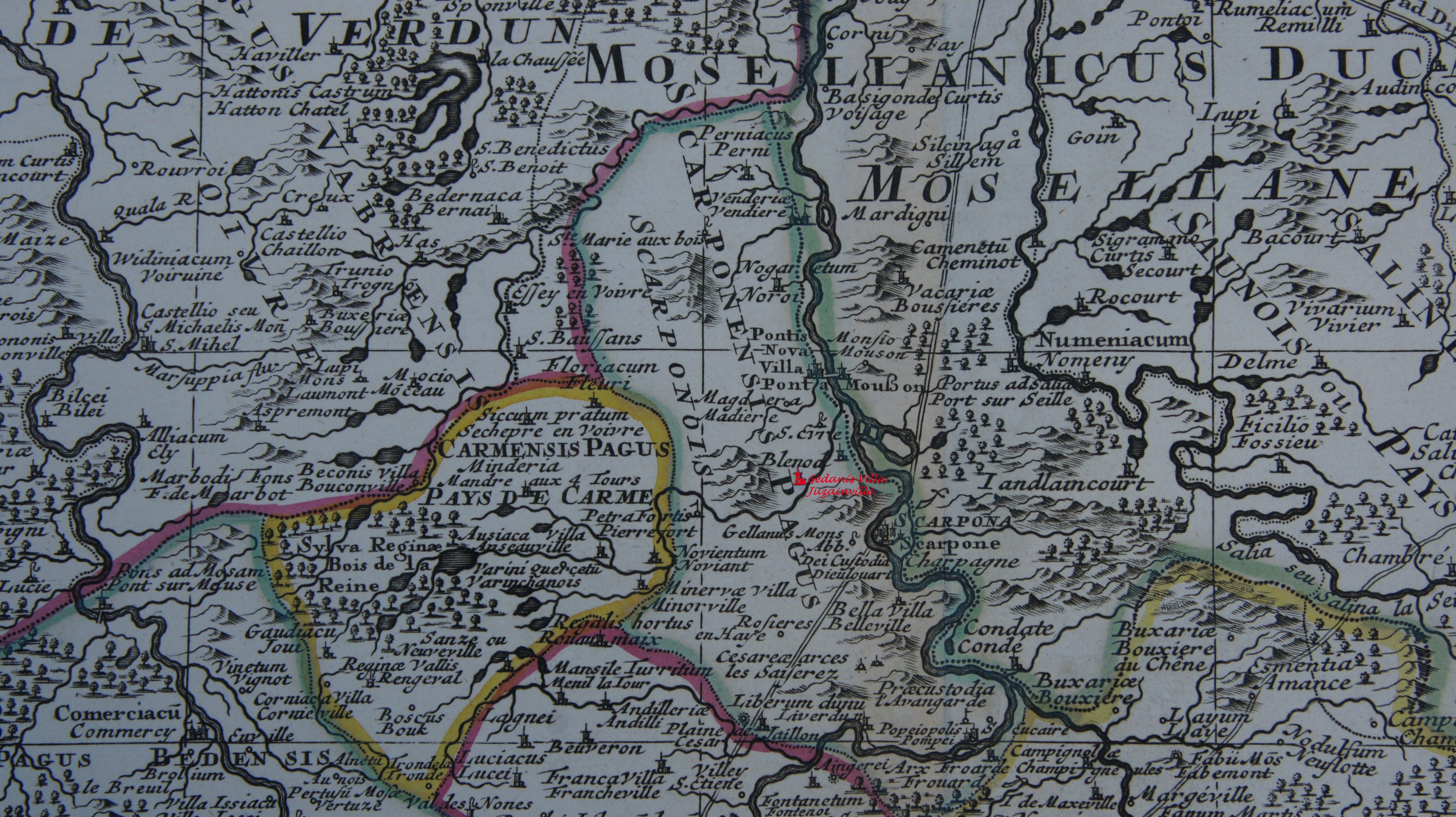 Civitas Leucorum sive Pagus Tullensis, today the Diocese of Toul, to serve as a history of this Diocese. By Guillaume de l'Isle. In Amsterdam, in J. Covens and C. Mortier.Superposition of the village of Jezainville, not present on the original.